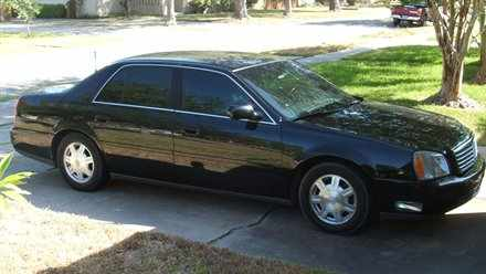 My 2003 Cadillac De Ville Base model. fully loaded.